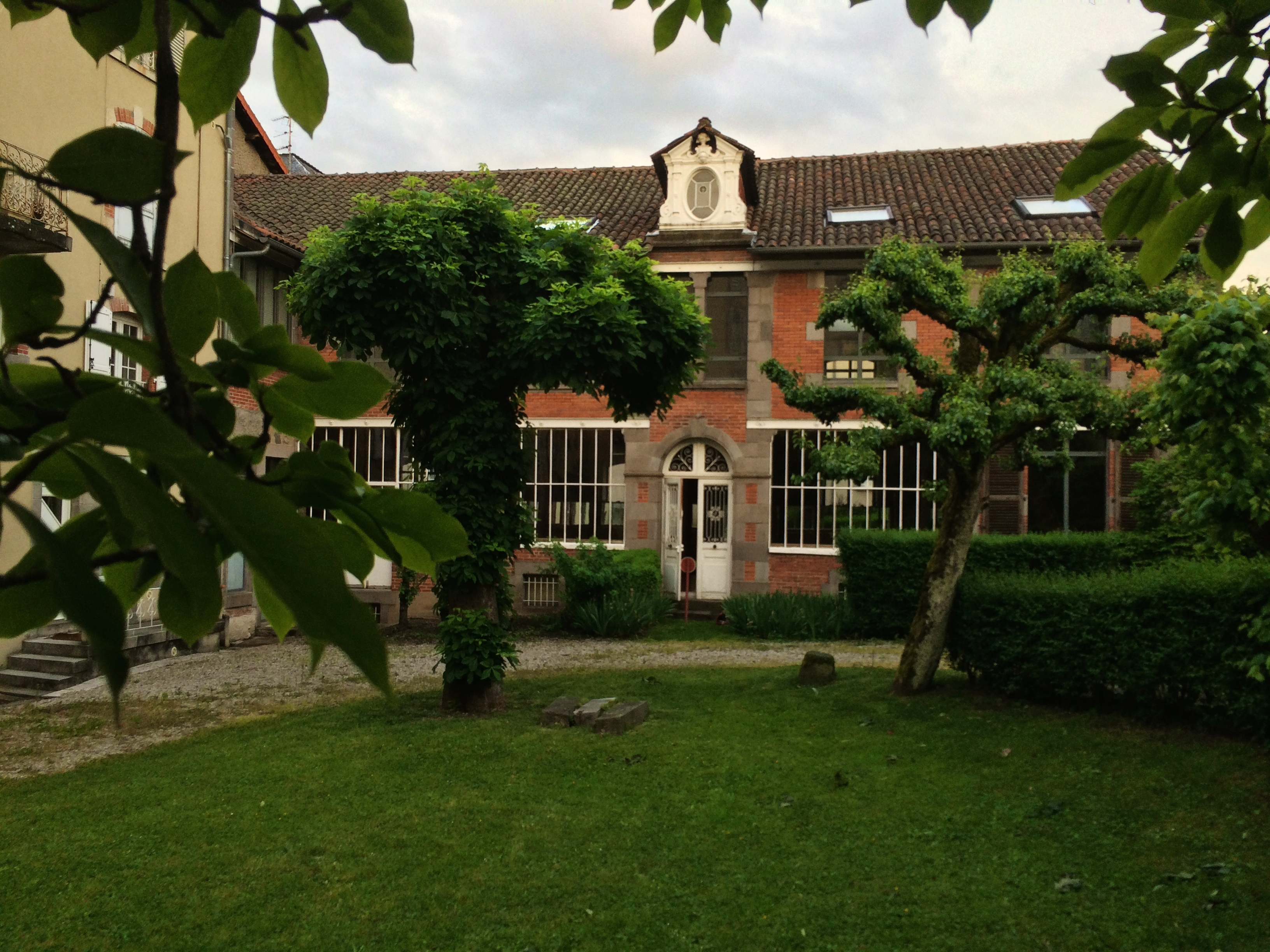 La Manufacture, in France